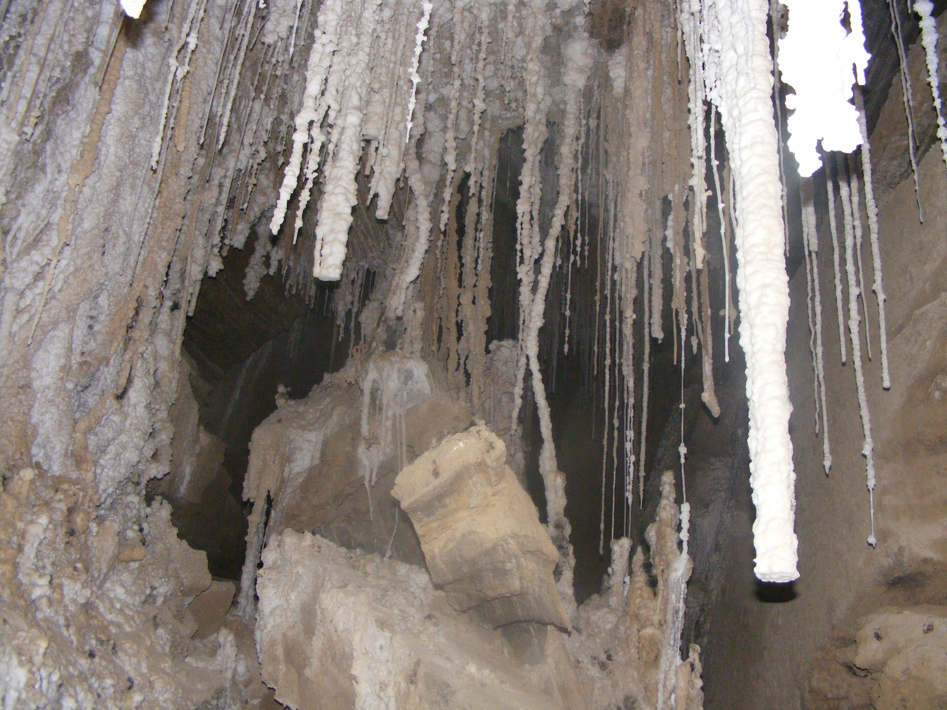 malcham cave inside